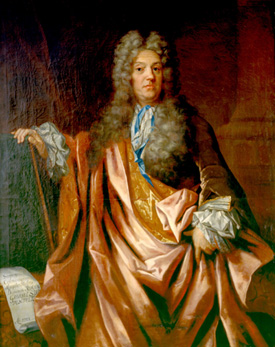 Photographic reproduction